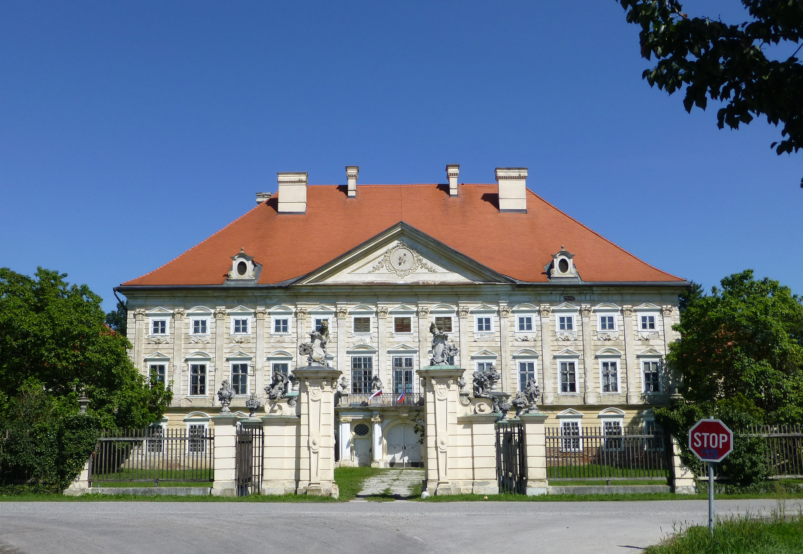 Baroque castle (mansion) at Dornava, near Ptuj, Styrian Slovenia. Currently without purpose. Built early 1700s, bought in 1736 by the Attems family. One of the finest manor of Slovenia is in need for preservation!